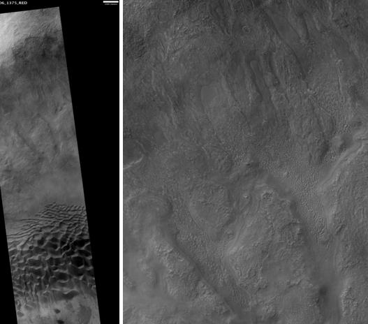 Baltisk Crater Floor, as seen by hirise. Scale bar is 1000 meters long. Location is 42.2 south and 305.1 east. Image was taken by the Mars Reconnaissance Orbiter's HiRISE. The HiRISE camera was built by Ball Aerospace and Technology Corporation and is operated by the University of Arizona. Image courtesy NASA/JPL/University of Arizona.